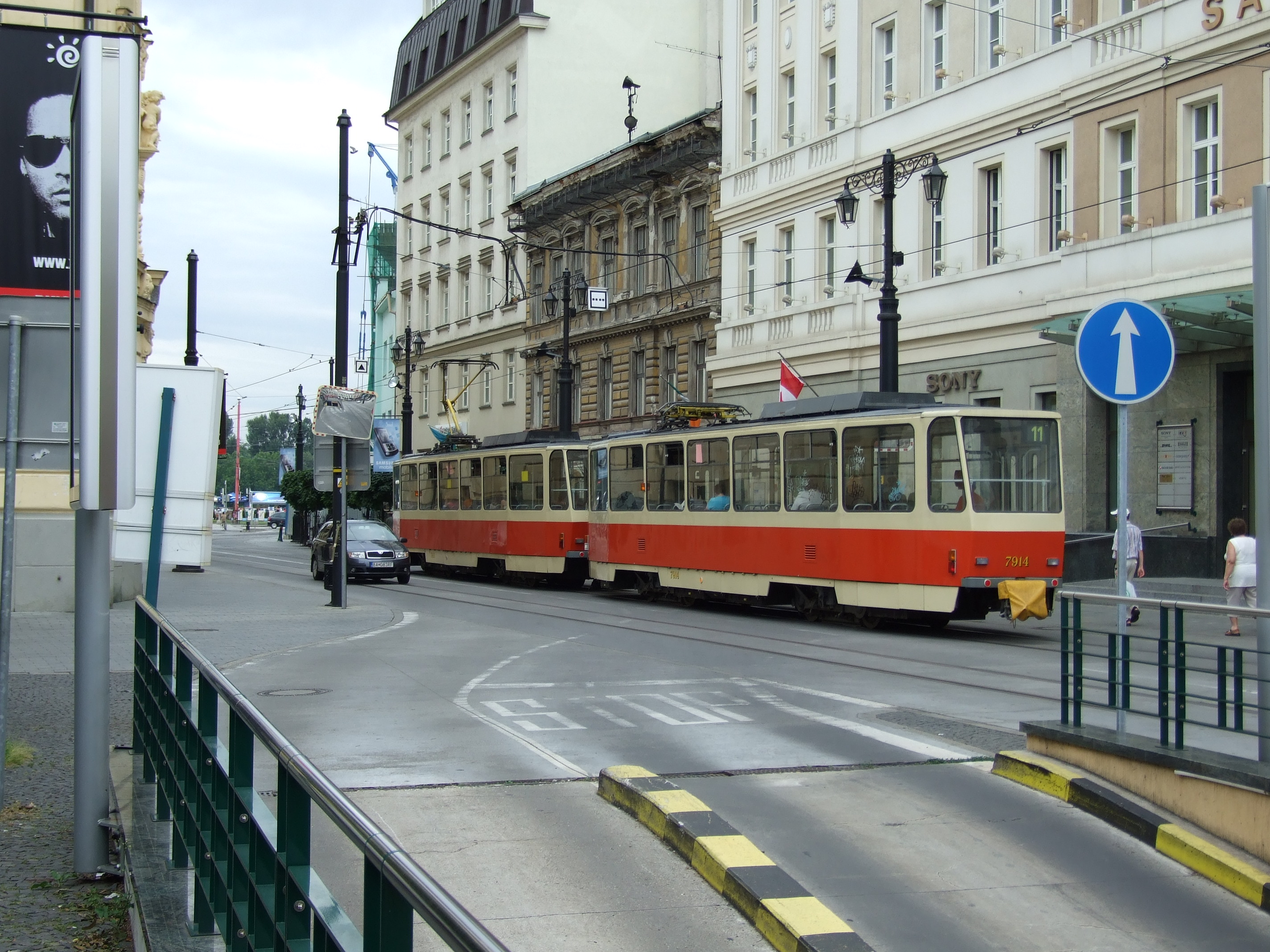 Public transport trams Tatra T6A5 in Bratislava, SKhelp